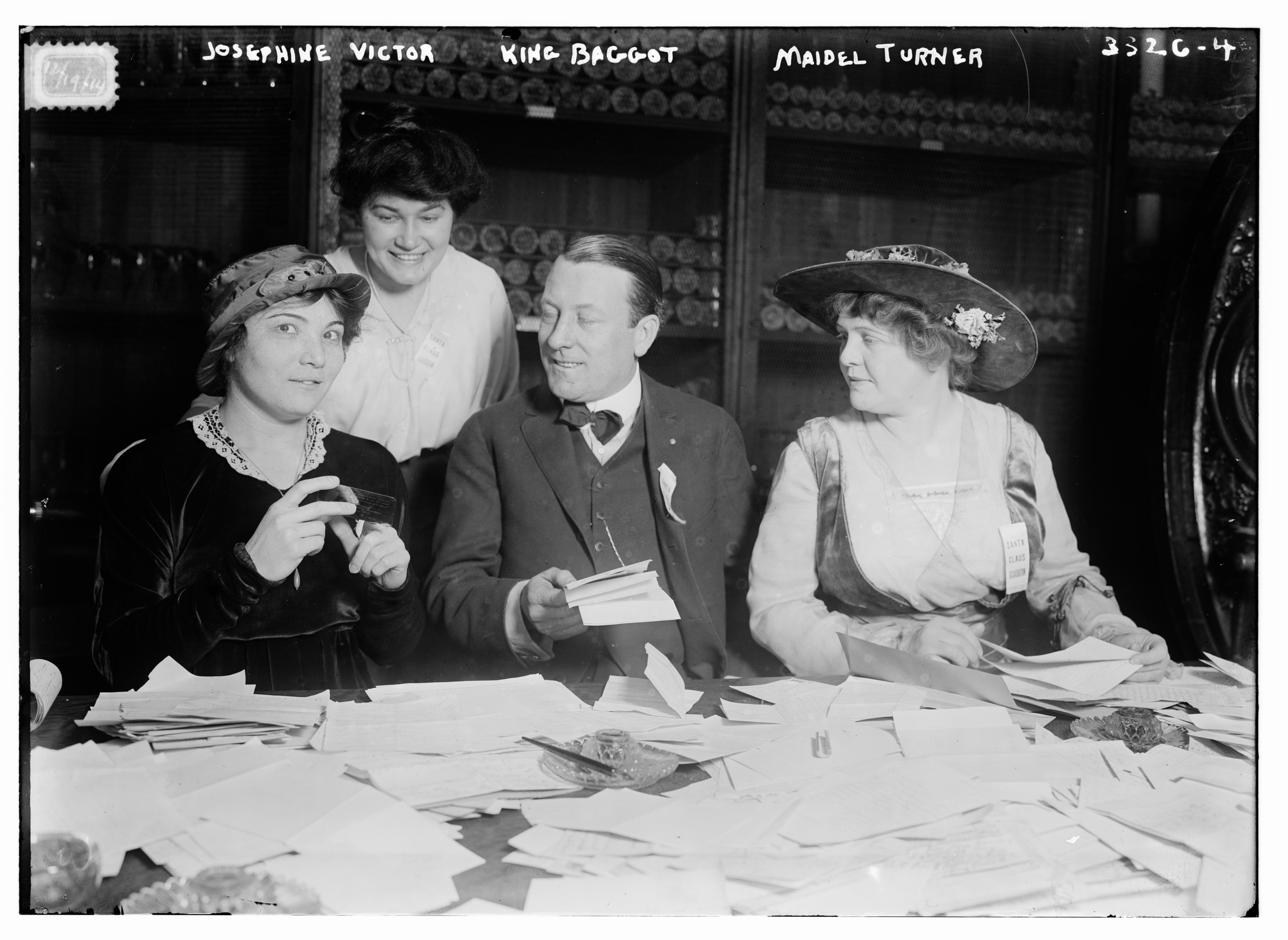 Title: Josephine Victor, King Baggot, Maidel Turner Abstract/medium: 1 negative : glass ; 5 x 7 in. or smaller.